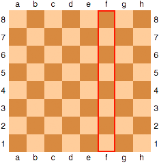 A chessboard with the f-file marked in red.